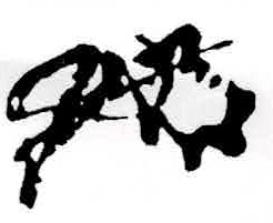 The kaō (calligraphic signature) of Oda Nobunaga (died 1582)